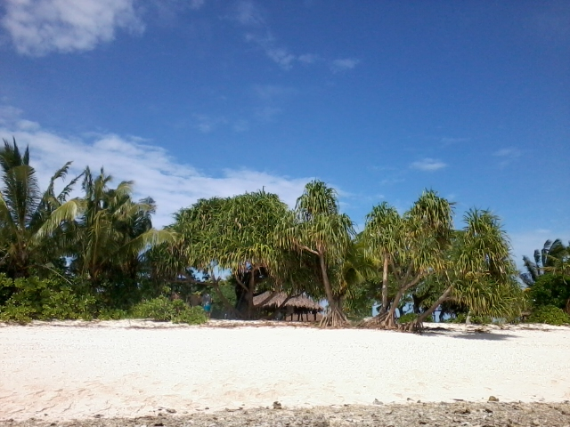 On the beach of Nukuloa islet, Wallis and Futuna (North of Wallis island lagoon)